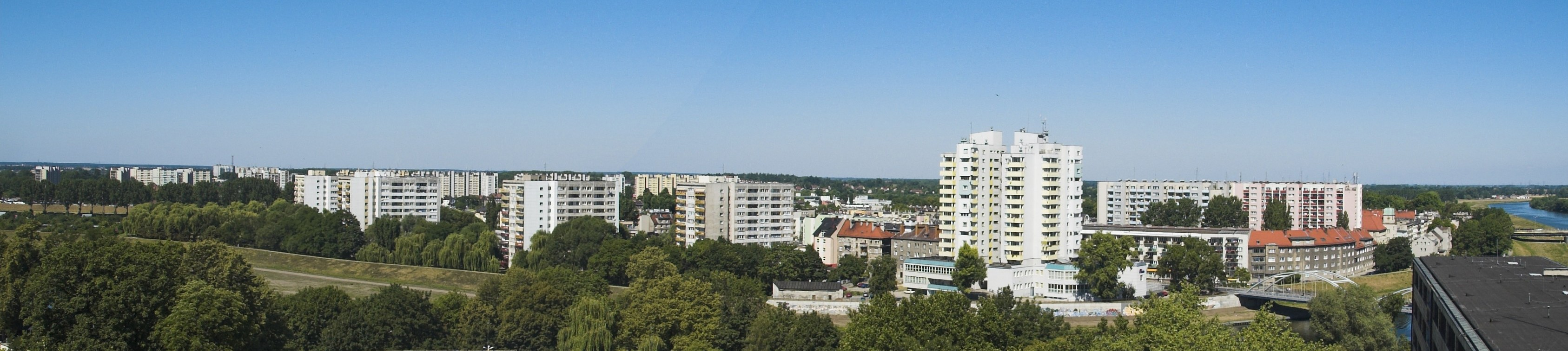 The general view of Opole-Zaodrze, Poland